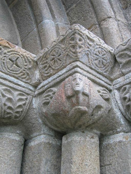 Romanic Church of Boelhe - Capitel